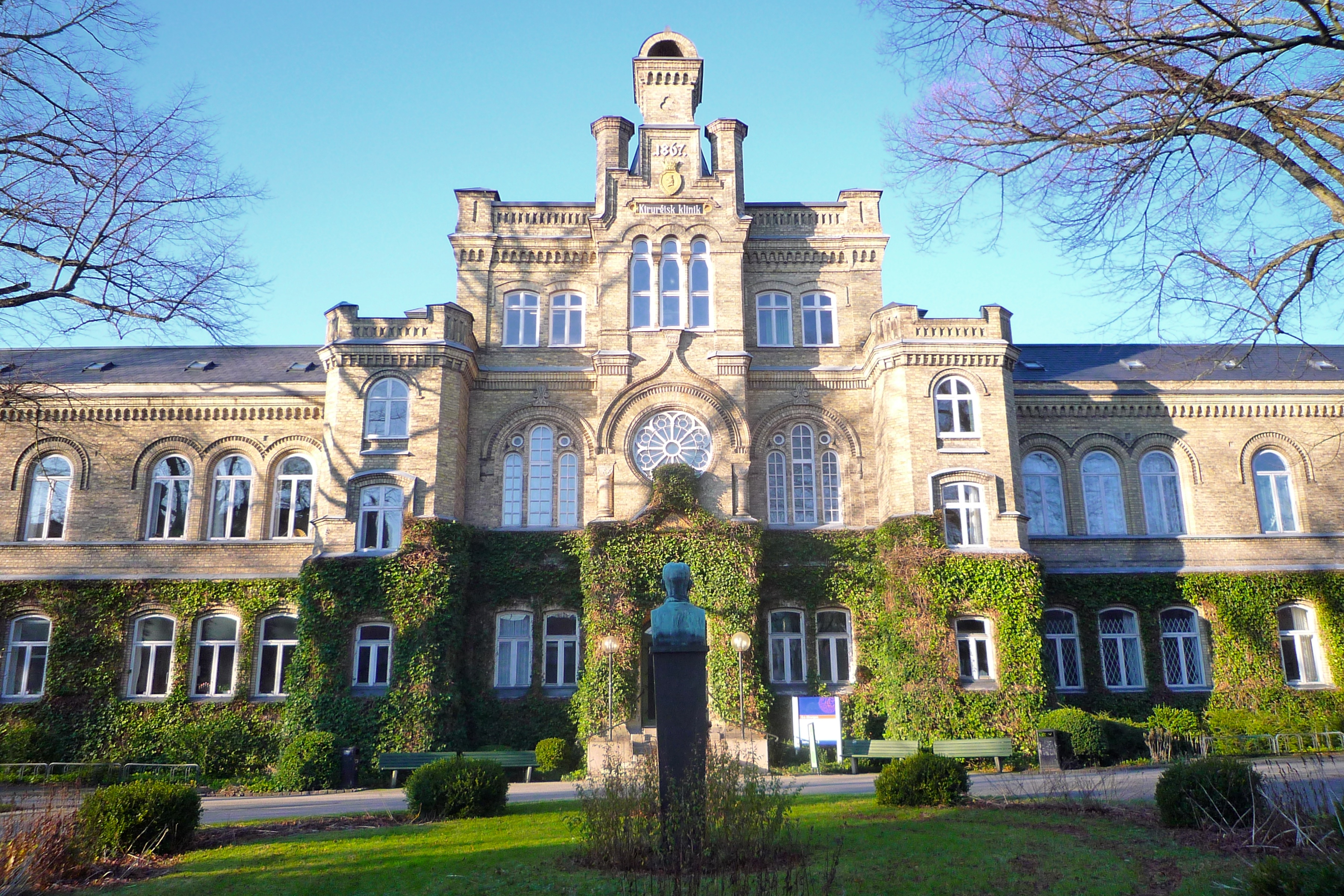 Gamla Kirurgen, Sandgatan in Lund